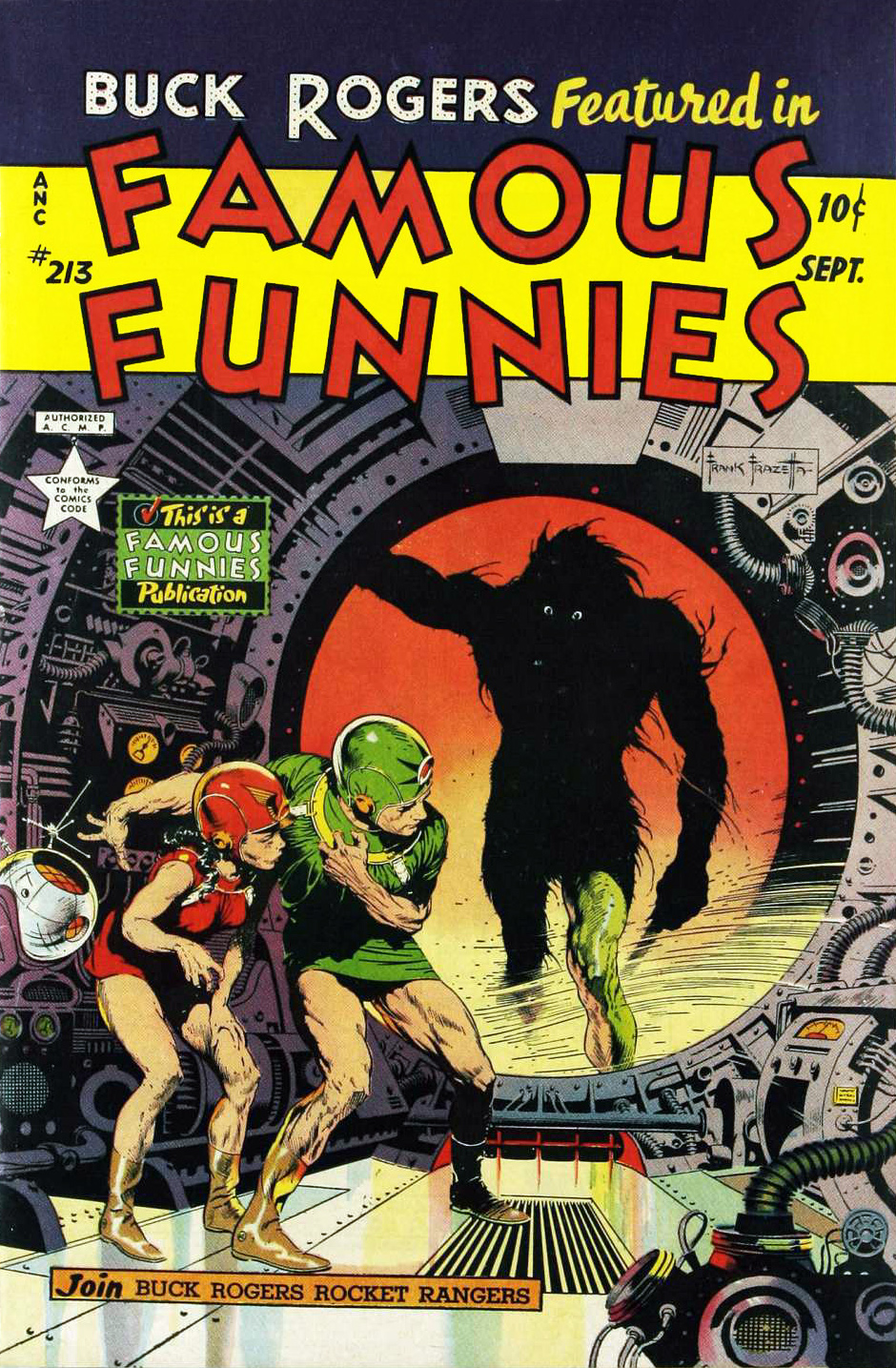 Cover of Famous Funnies number 213 (September 1954), featuring artwork by Frank Frazetta. Publisher: Eastman Color.